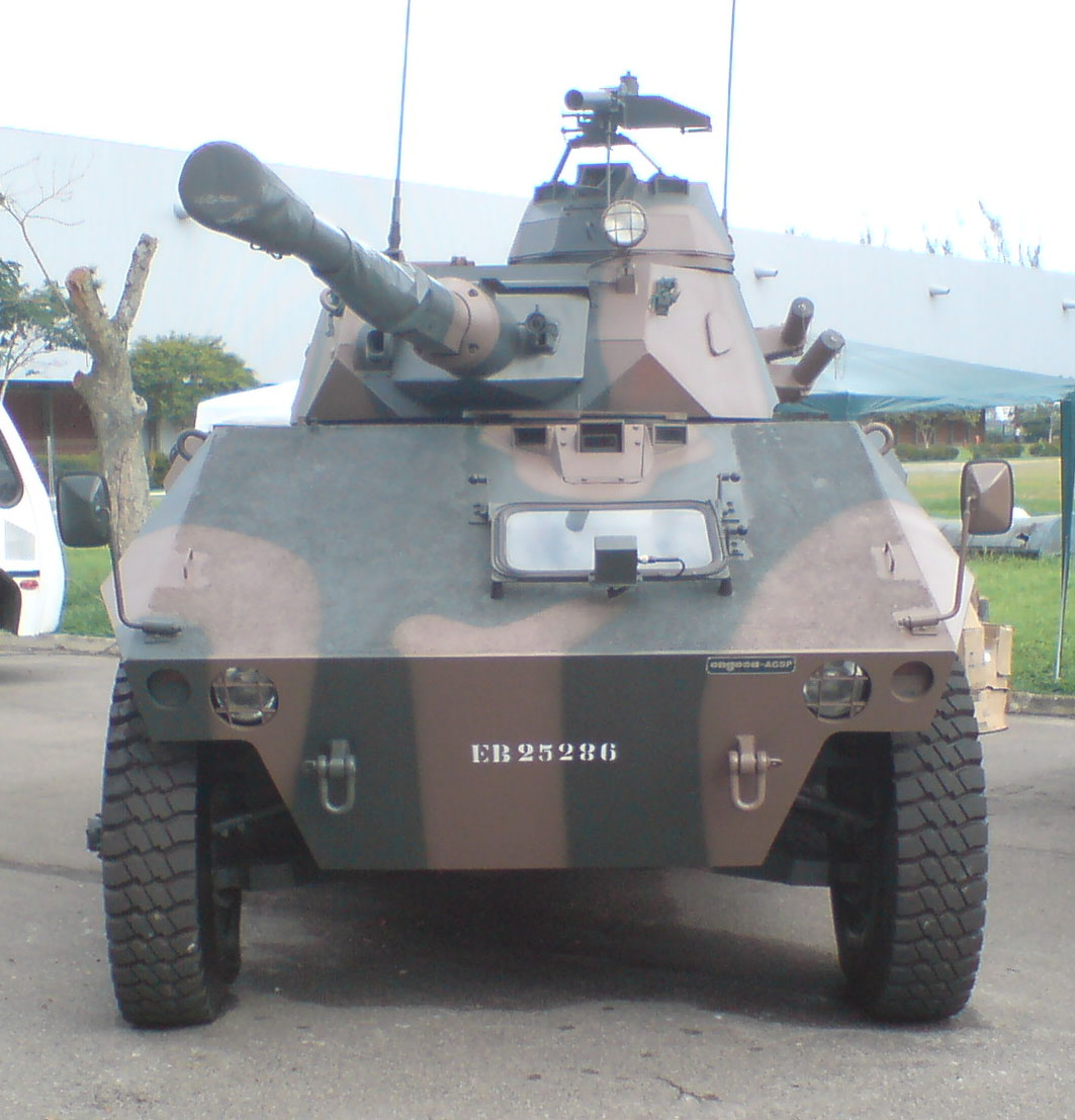 One of the Cascavel IV modernized by Brazilian Army´s Sao Paulo War Arsenal (AGSP).